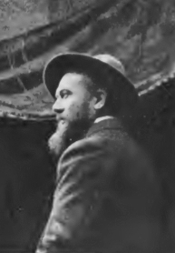 This is a public domain vintage photograph (exact date unknown, but published in 1906) of the French poster artist, cartoonist, and illustrator Lucien Métivet, a contemporary of Henri Toulouse-Lautrec, for use with the article on Lucien Métivet.